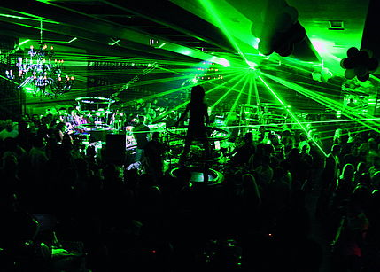 Belgrade nightlife on riverclubs